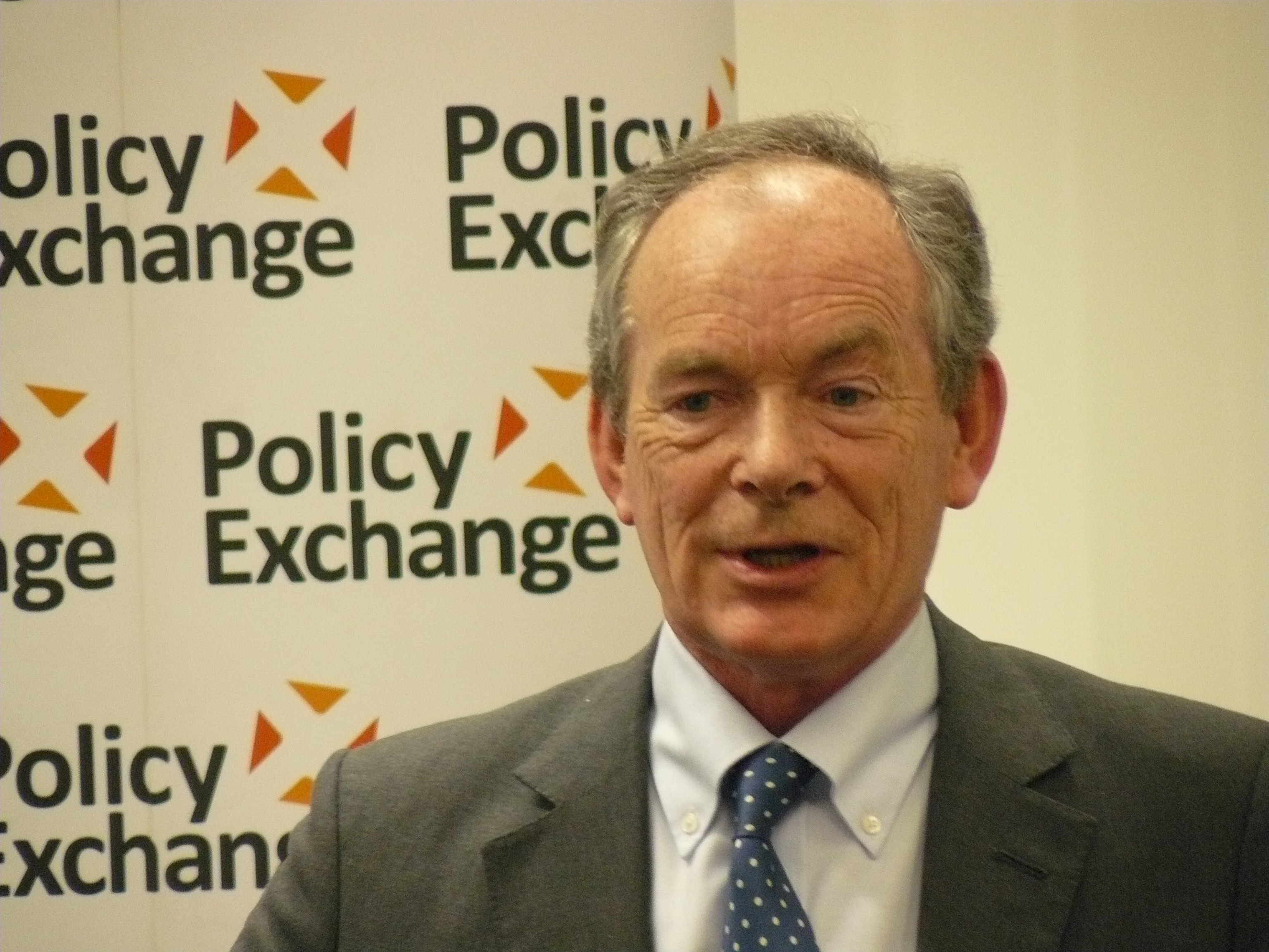 Simon Jenkins at Policy Fight Club